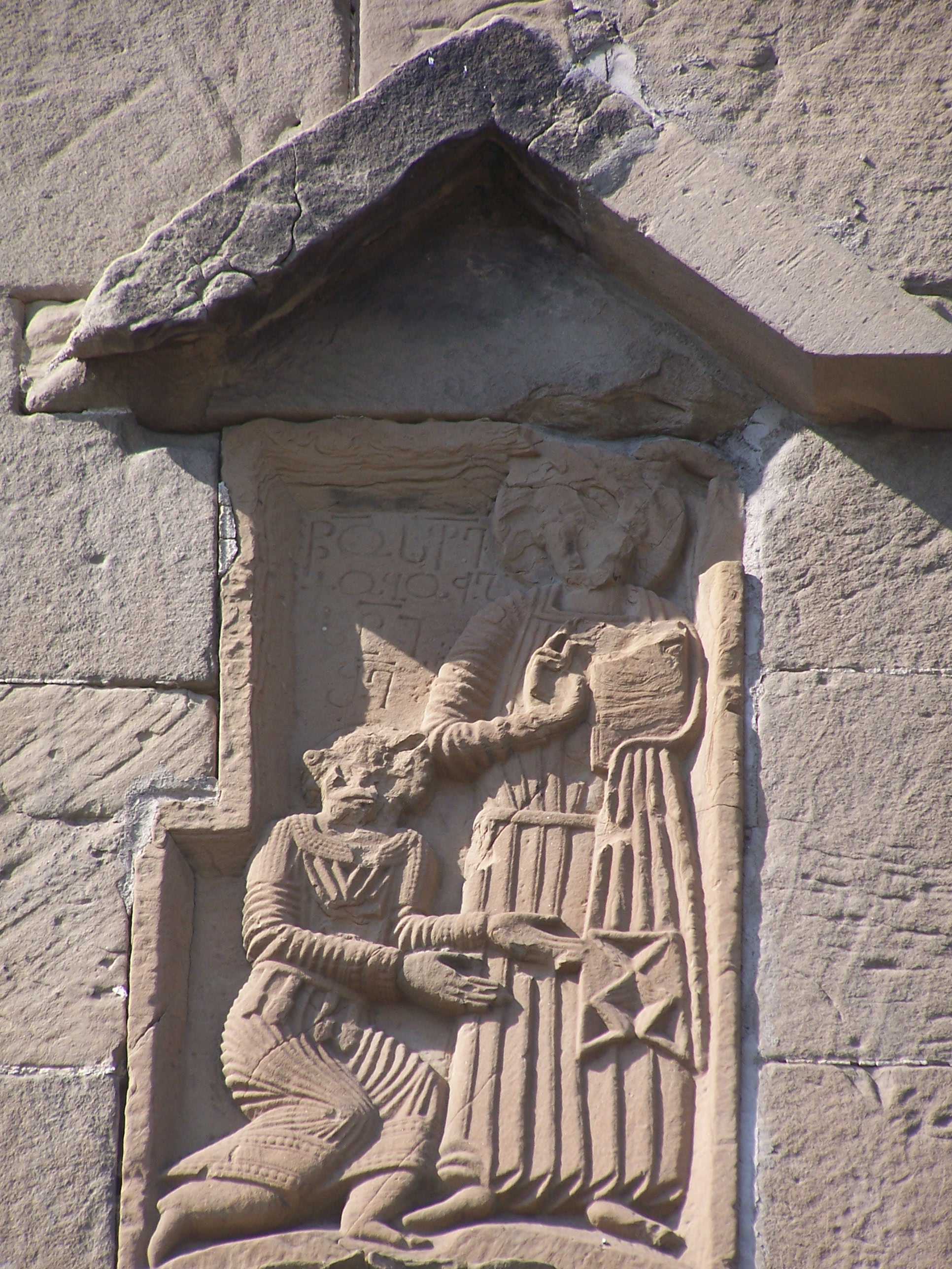 It's believed that the script etched into the stone is the oldest known Georgian writing.